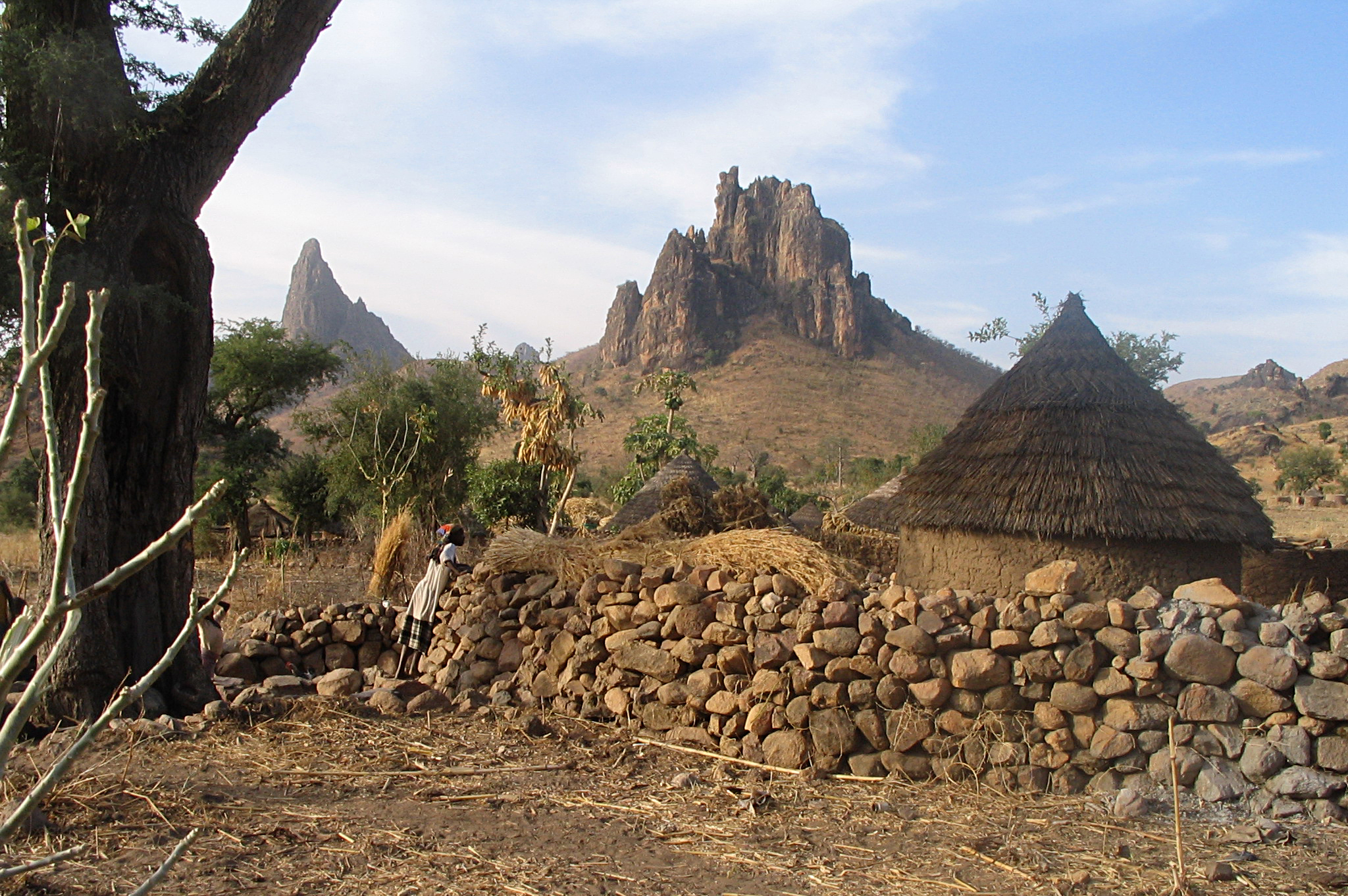 Kapsiki home in the village of Rhumsiki, Far North Province, Cameroon.